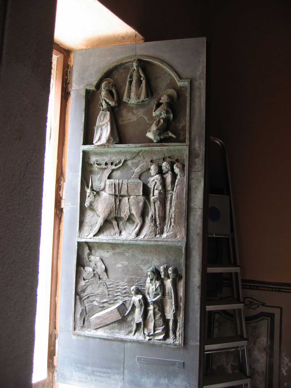 Holy door in church of Luogosanto, Sardinia, Italy